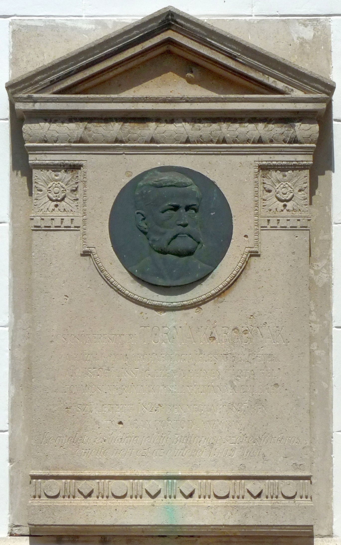 Commemorative plaque to Mr. Károly Torma (1829–1897) Hungarian Doctor of Letters, archaeologist and professor, member of the Hungarian Academy of Sciences, founder of the Aquincum Museum. The bronze relief sculpted by Ms. János Darás in 1909 is affixed to the wall of the old main building of the museum. (Budapest, District III, Szentendrei Avenue Nr 135-139)